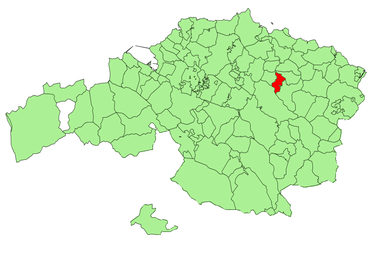 Ajangiz municipality in the province of Biscay